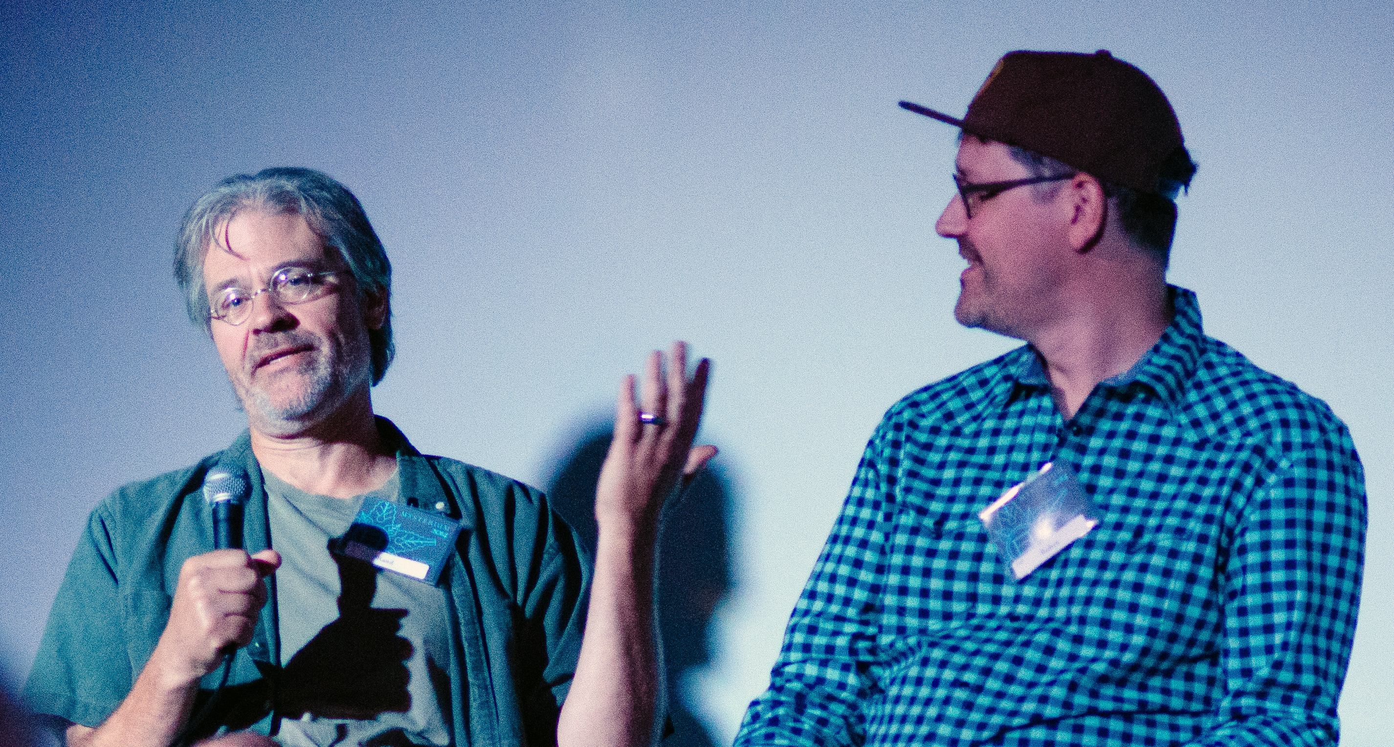 Rand and Robyn Miller, creators of the Myst franchise, at a question and answer panel at Mysterium 2014.